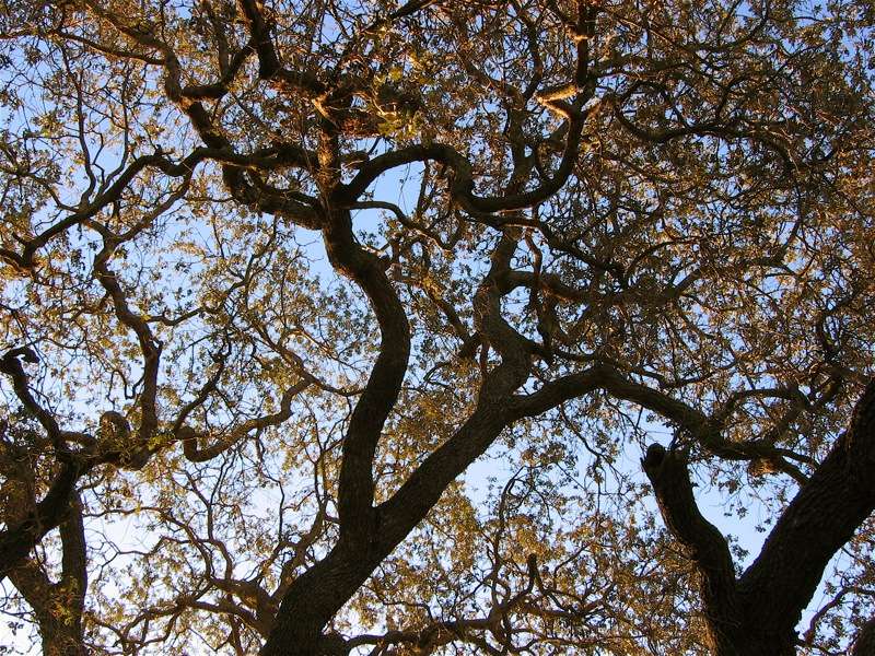 The gnarled branches of a majestic old oak tree, Quercus lobata, in Thousand Oaks, California.